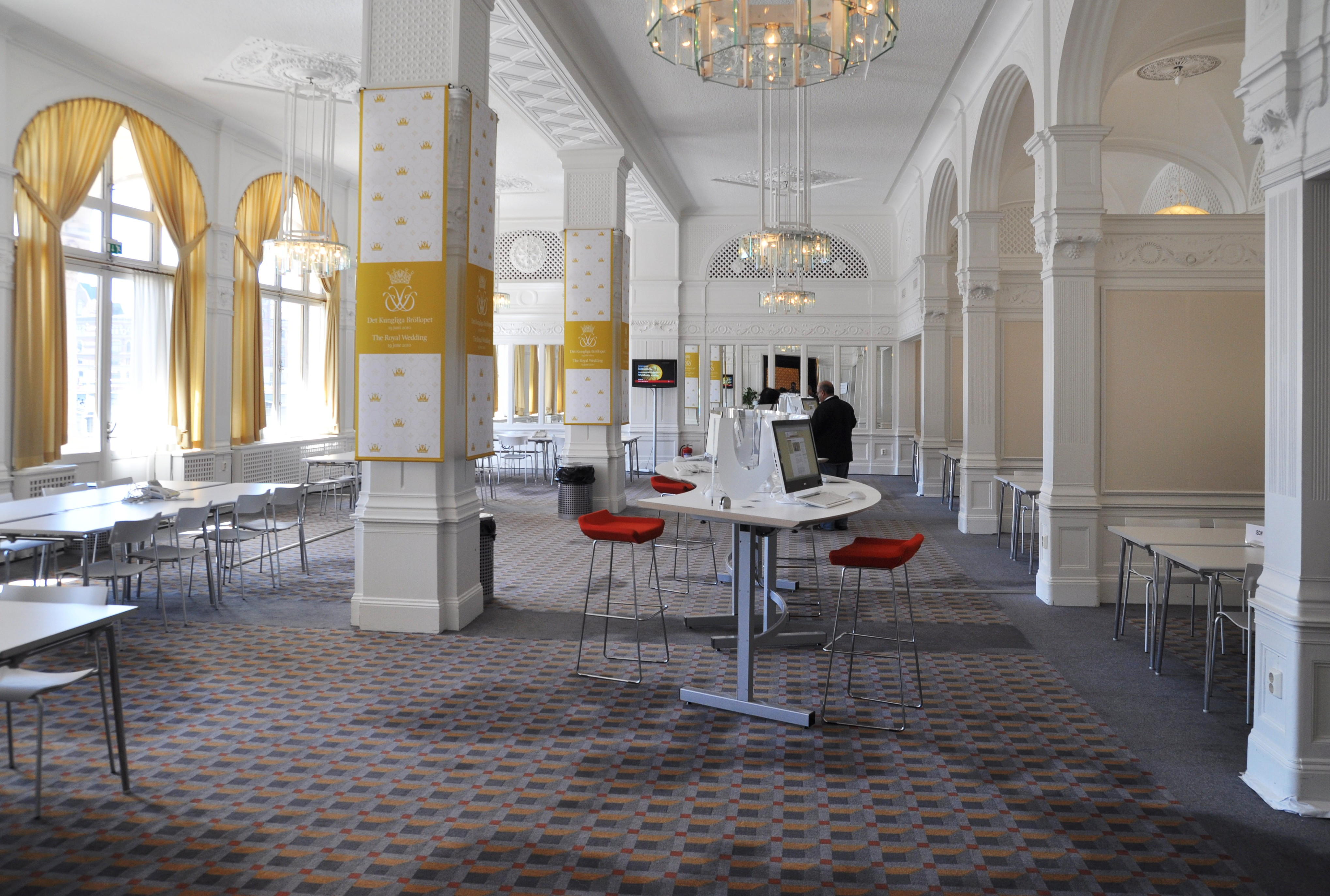 Lunchroom of Rosenbad, used as media centre for the Royal Wedding in Stockholm 2010